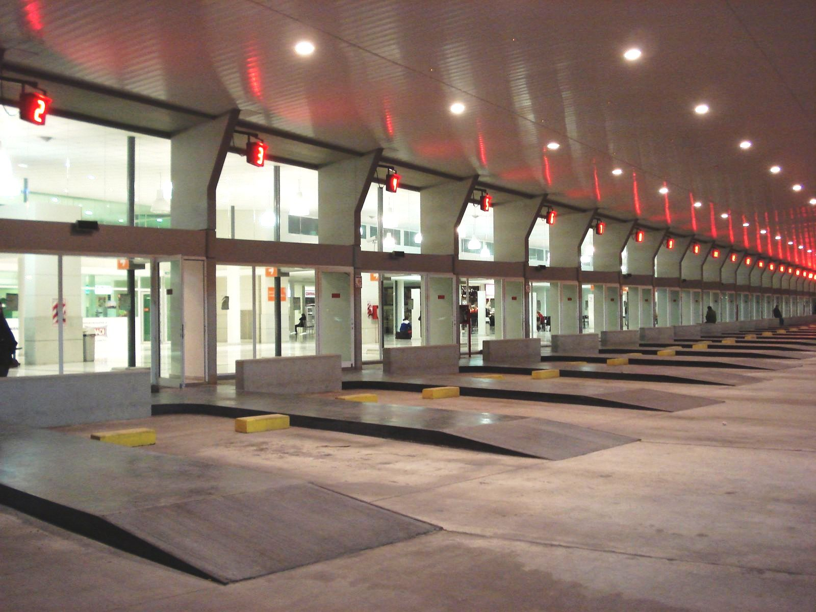 Bahía Blanca bus station.